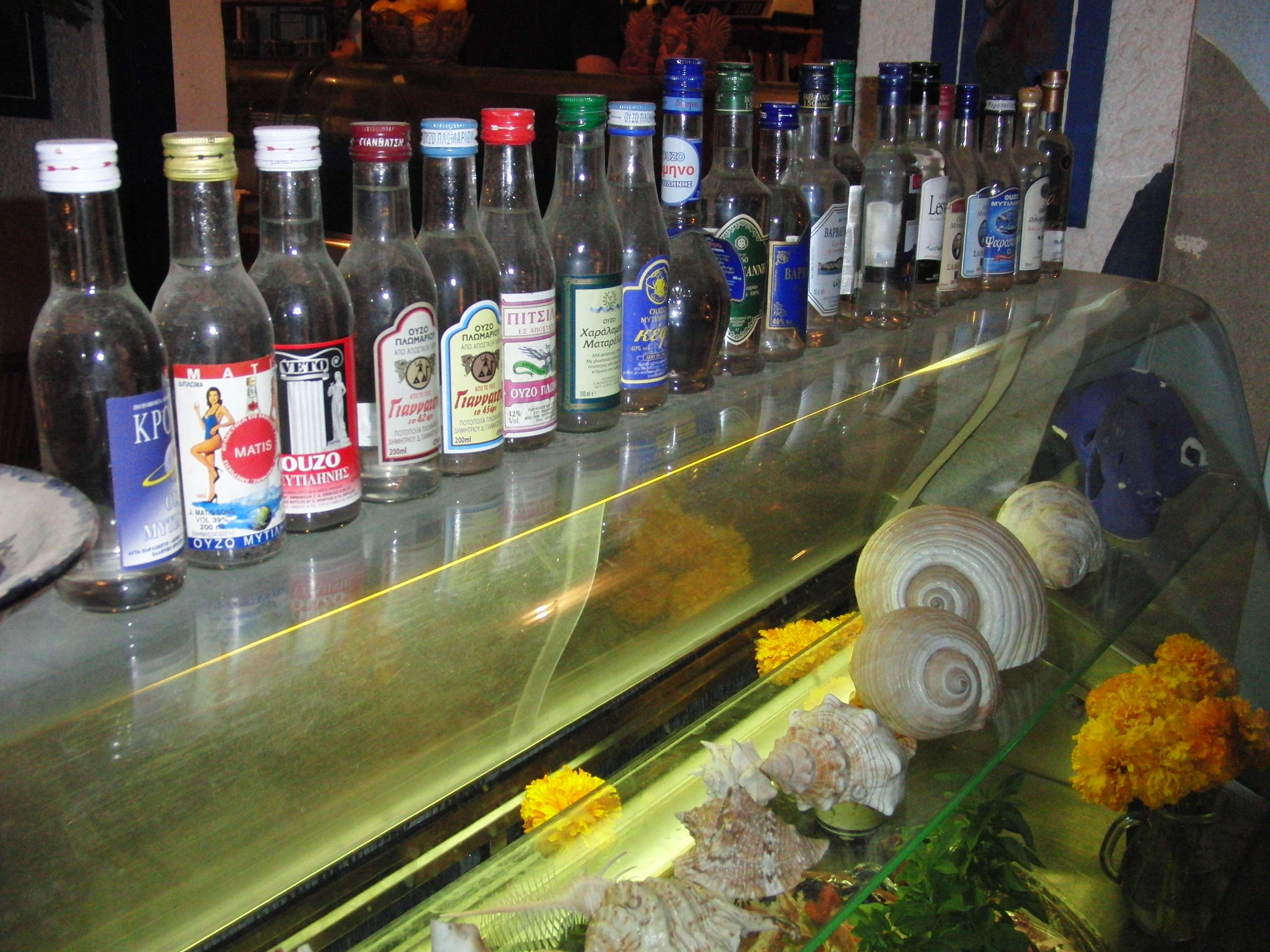 Very rare ouzo brands from local microdistilleries, spotted in a taverna in Skala Eresou, Lesbos island, Greece.